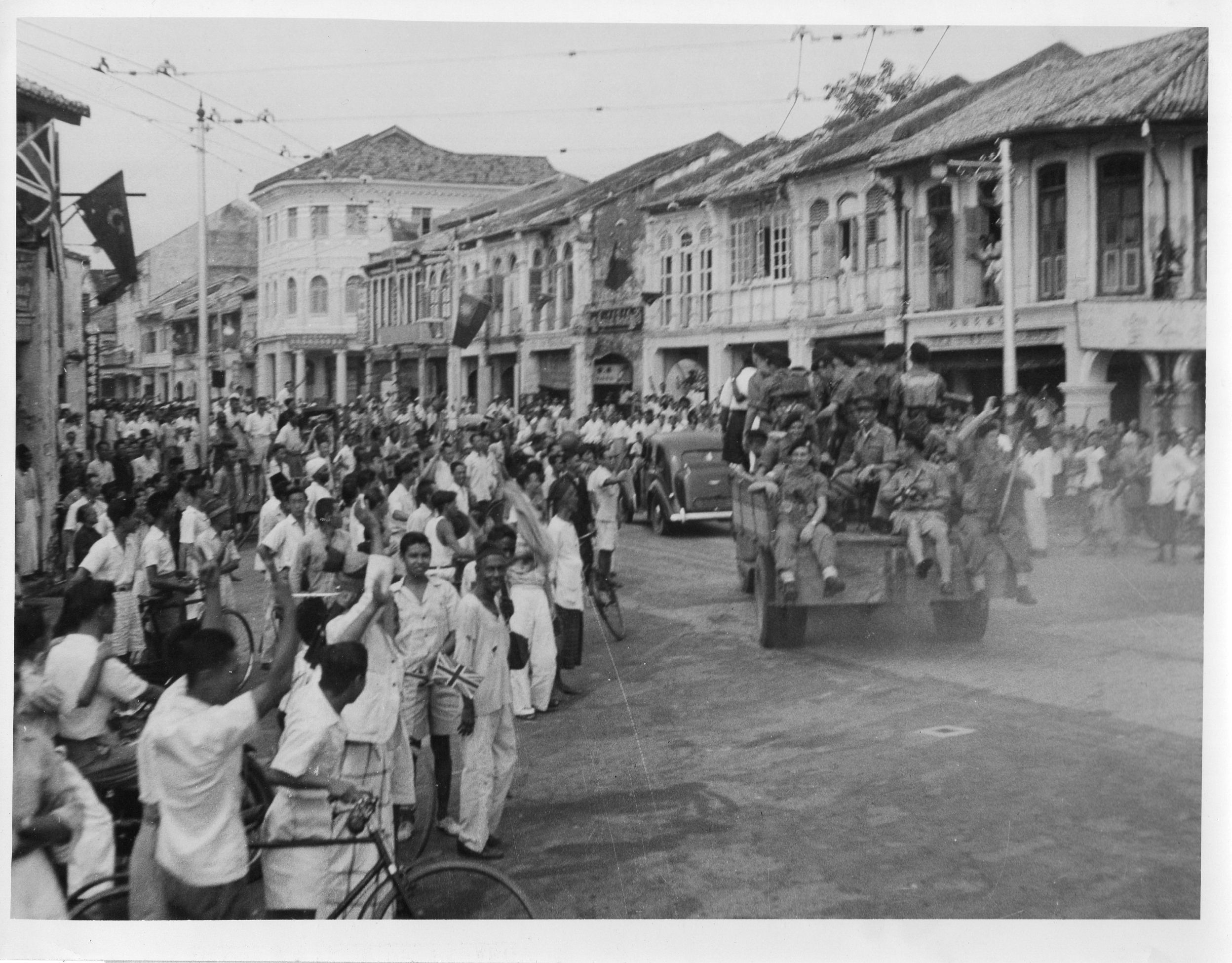 REOCCUPATION OF PENANG Allied Forces liberated Penang at the end of August. Jap surrender party signed off the war aboard HMS Nelson lying off Georgetown. Jap truck carrying Royal Marine occupying force passes through excited crowd in Penang. SPU/791 Sept '45 - INTERSERVICES PUBLIC RELATIONS DIRECTORATE (INDIA)